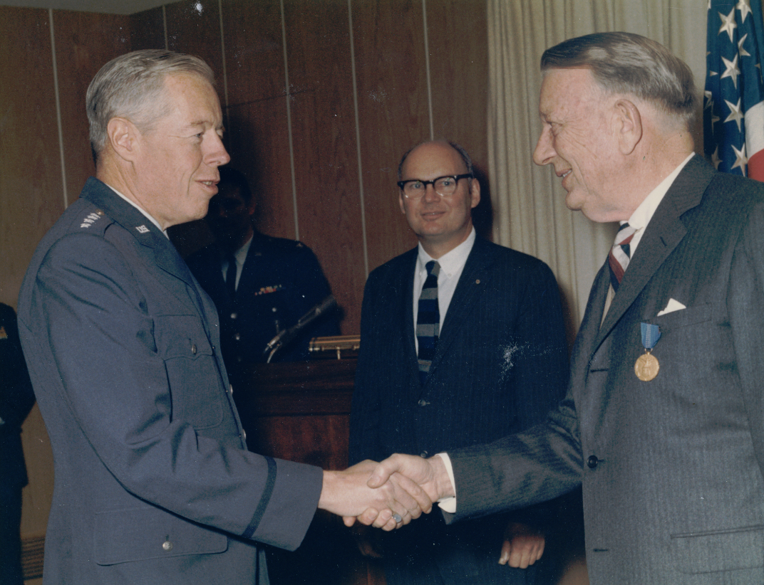 Vice Chief of Staff of the U.S. Air Force General John C. Meyer congratulates Hardy C. Dillard after awarding him the Air Force Decoration for Exceptional Civilian Service.